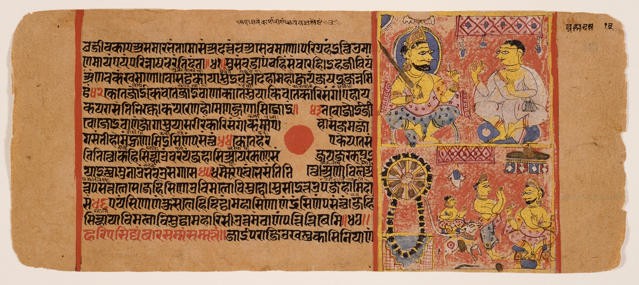 India, Gujarat, circa 1450 Manuscripts Ink and opaque watercolor with mica on paper 4 1/4 x 10 1/4 in. (10.8 x 26.04 cm) Gift of Gursharan and Elvira Sidhu (AC1993.225.1) South and Southeast Asian Art